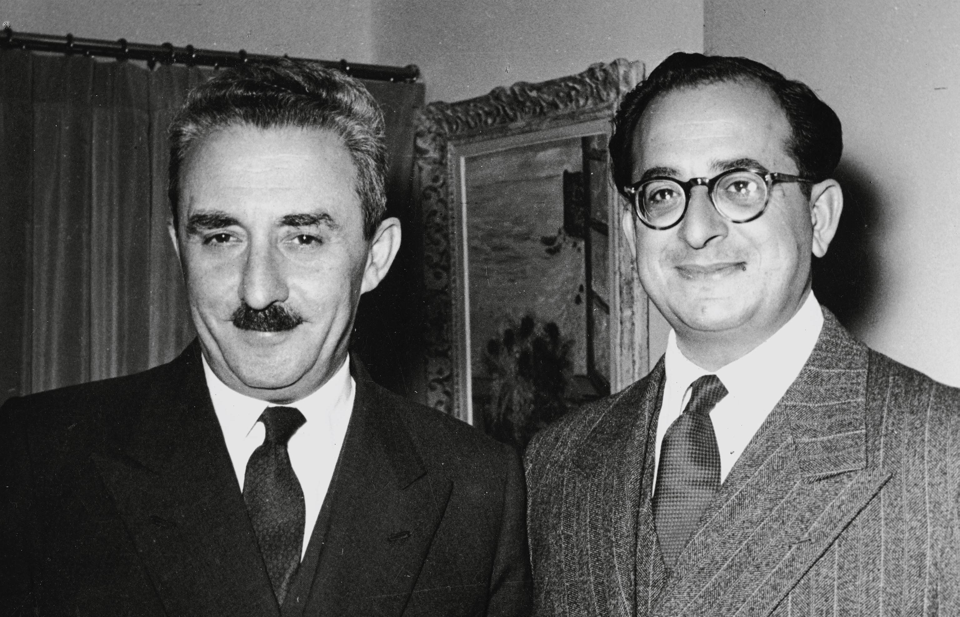 PRIME MINISTER MOSHE SHARET (L) AND HIS PERSONAL SECRETARY YITZHAK NAVON